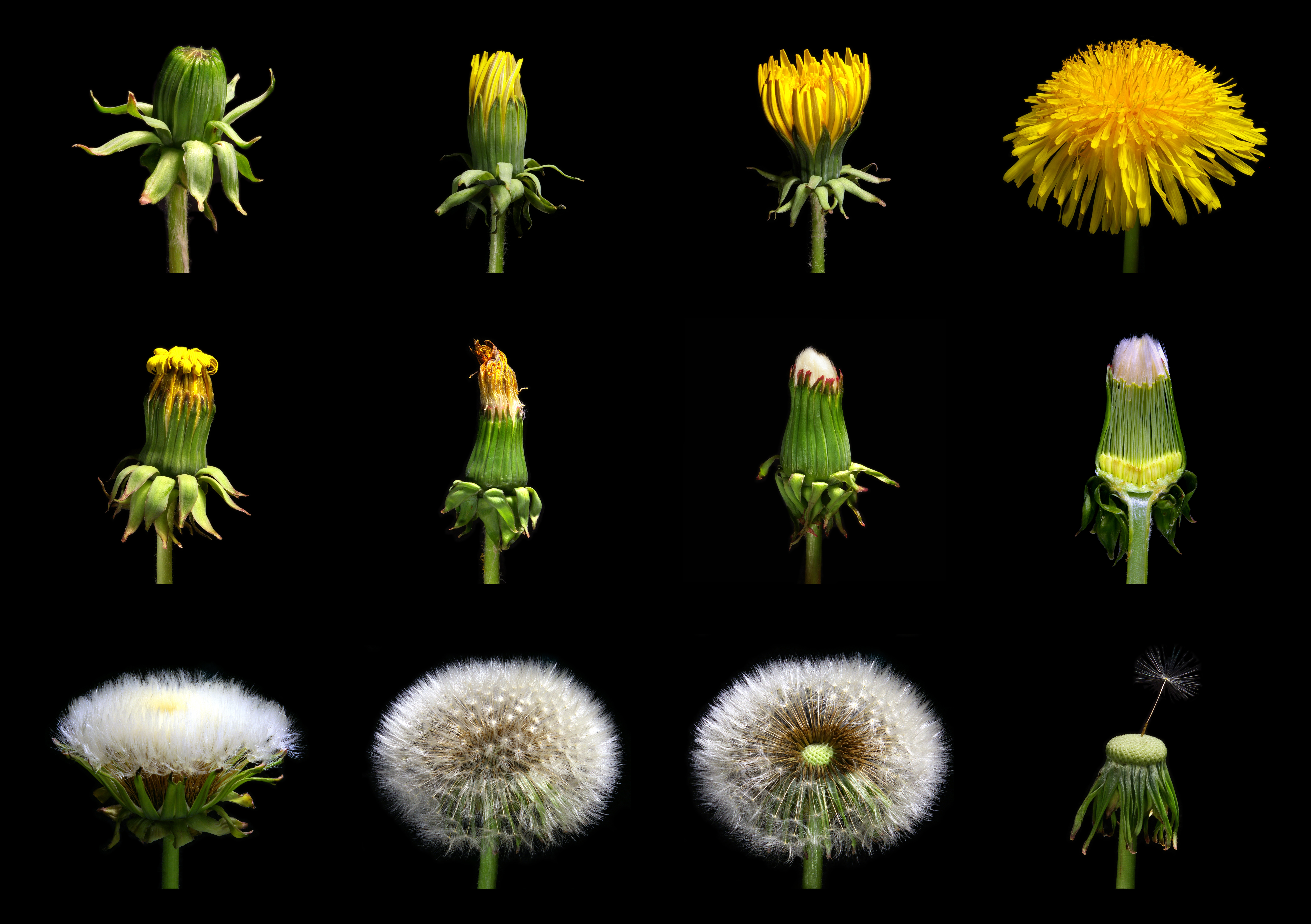 Taraxacum officinale